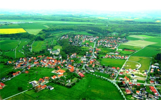 Wewelsburg (Germany) photographed from an airplane